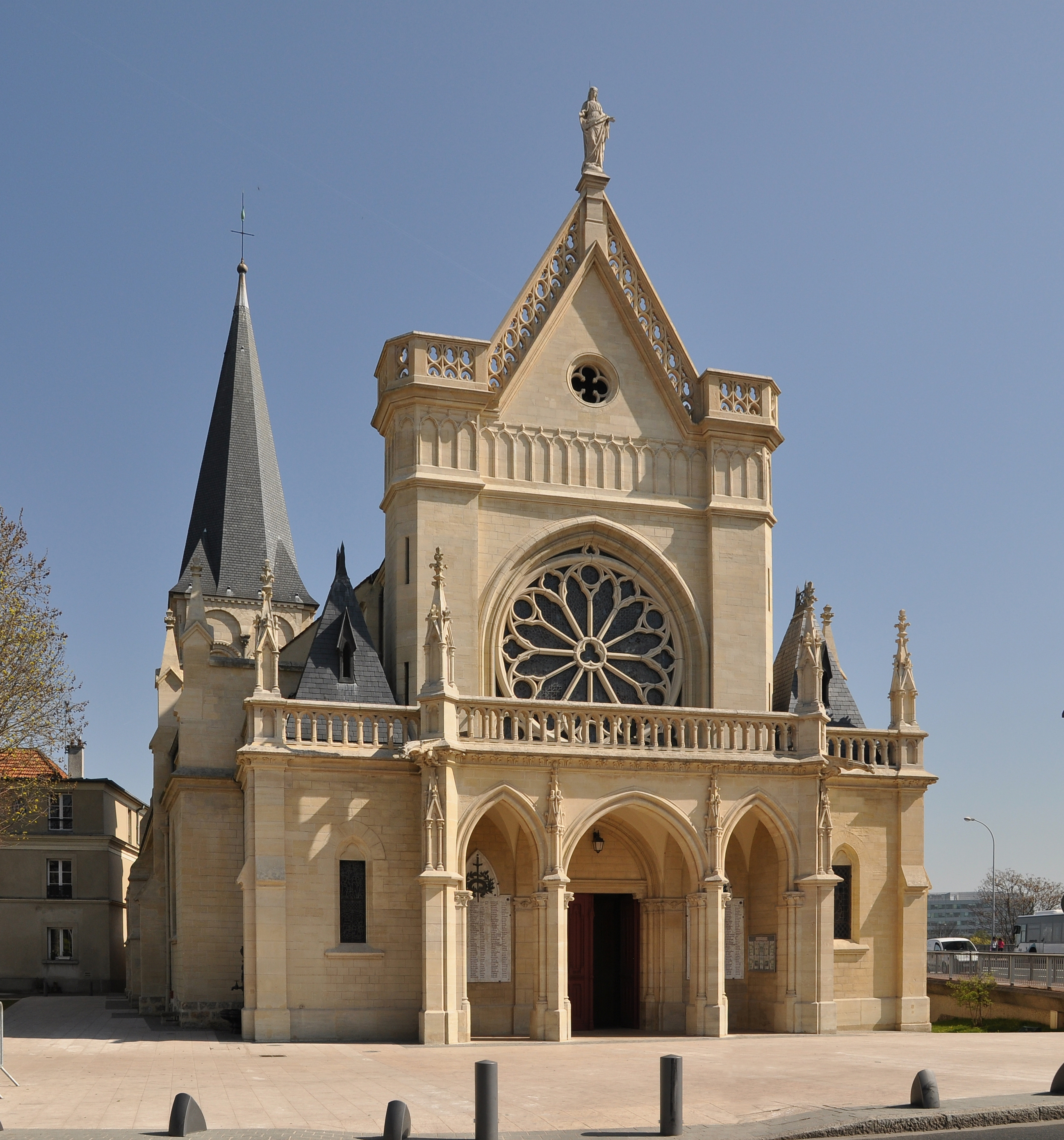 The west facade of the church of Notre-Dame in Chatou, department of Yvelines, France.